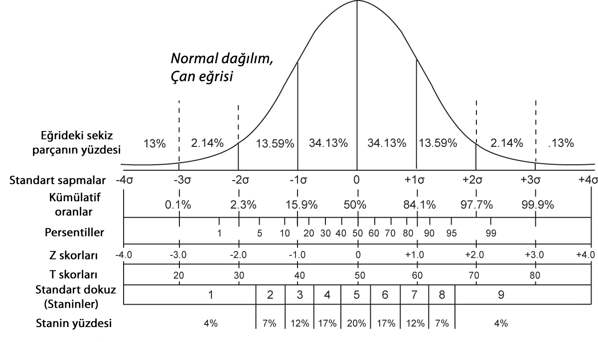 A chart comparing the various grading methods in a normal distribution. Includes: Standard deviations, cumulative percentages, percentile equivalents, Z-scores, T-scores, standard nine, percentage in stanine. Inspired by Figure 4.3 on Page 74 of Ward, A. W., Murray-Ward, M. (1999). Assessment in the Classroom. Belmont, CA: Wadsworth. ISBN 0534527043